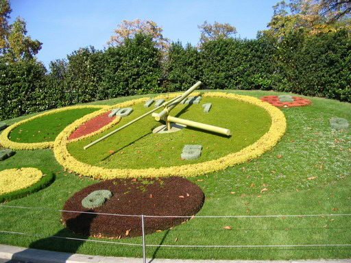 Flowerclock in Geneva